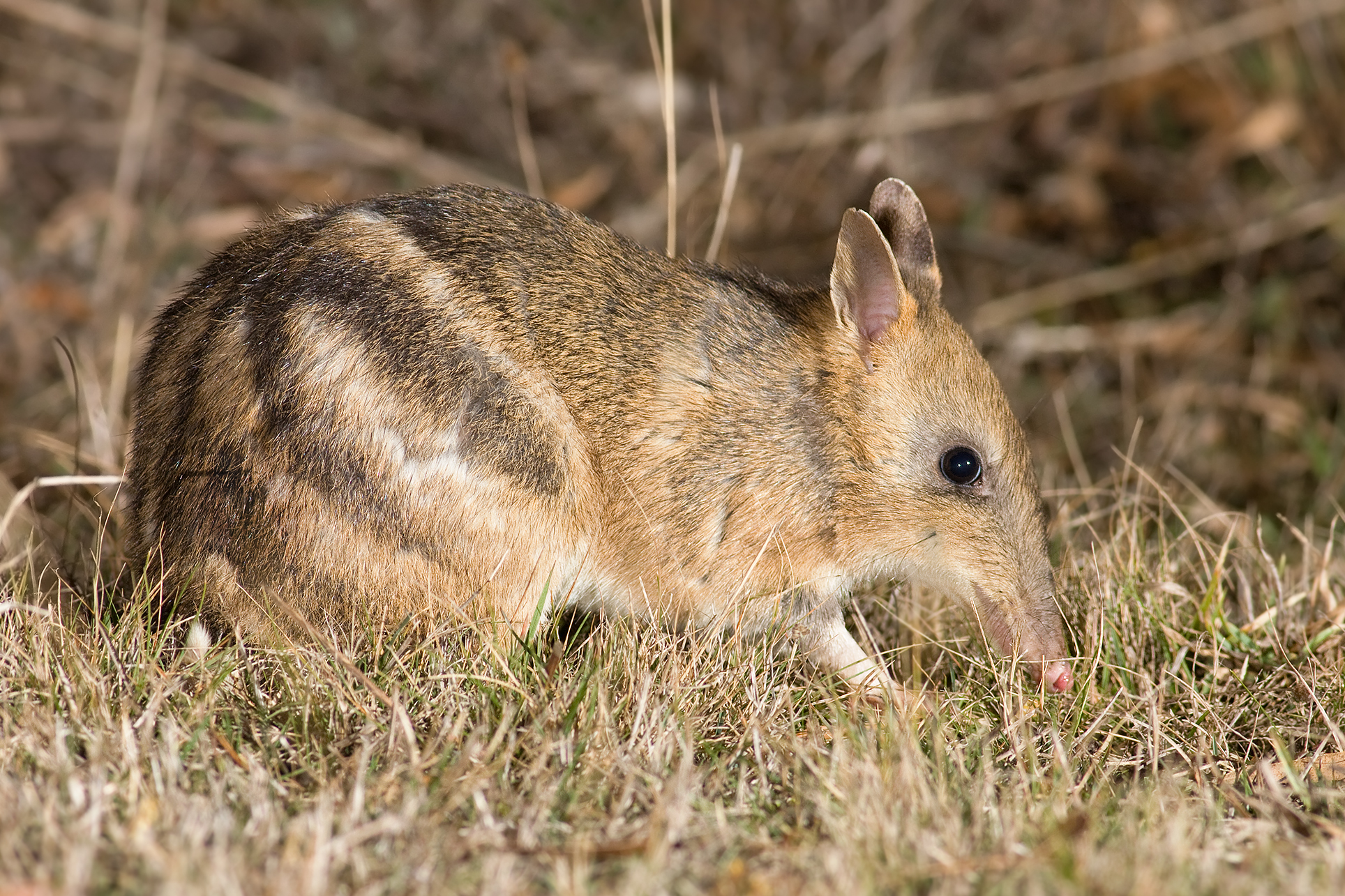 Eastern Barred Bandicoot (Perameles gunnii), Poimena Reserve, Austin's Ferry, Tasmania, Australia. The photo taken at night with off camera flashes.